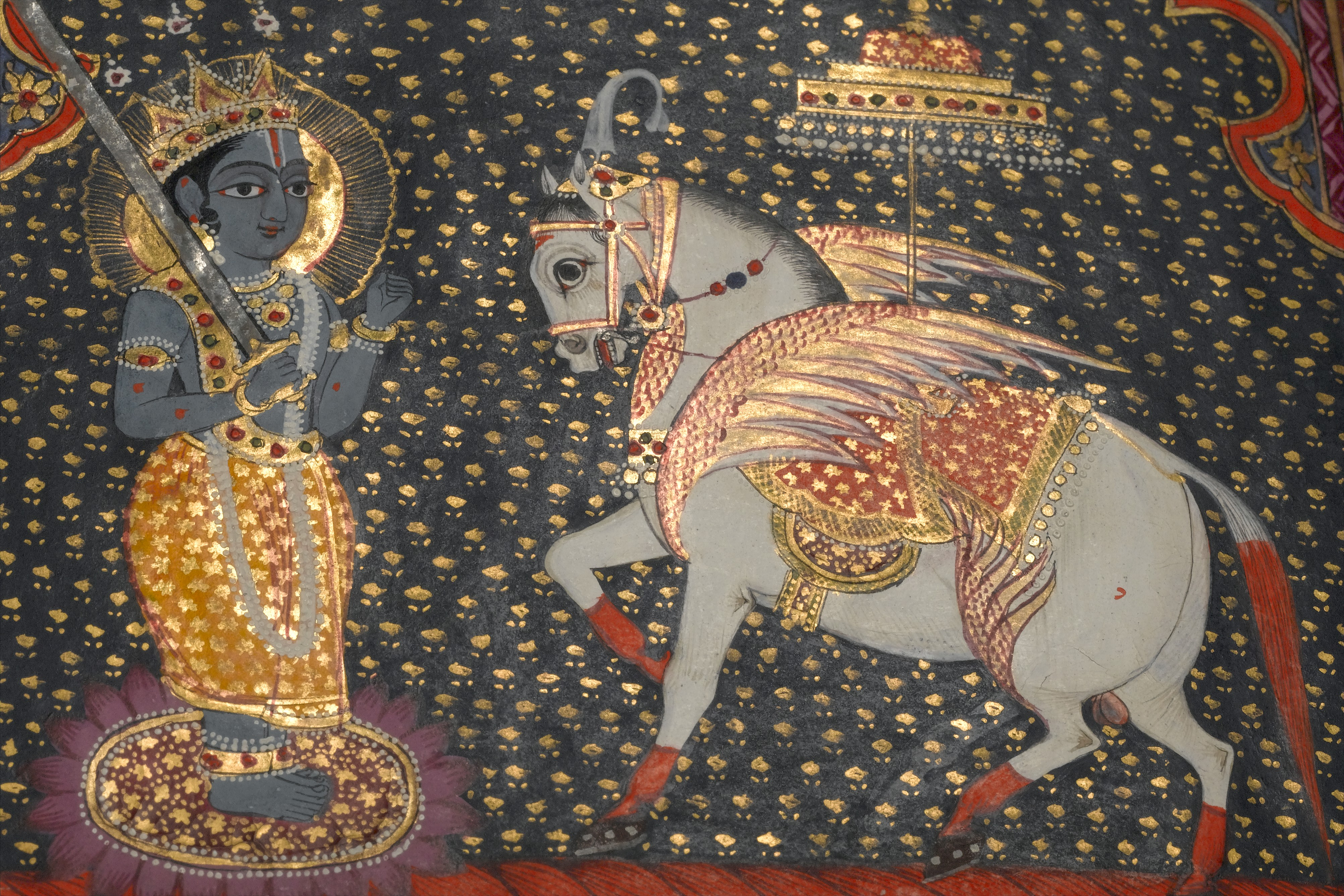 Panjabi manuscript 255. Kalki, avatar of Visnu Asian Collection Keywords: Krishna; Mythology; Hinduism